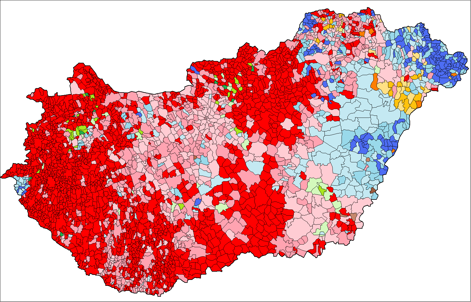 Largest religious groups by settlements in Hungary, 2001